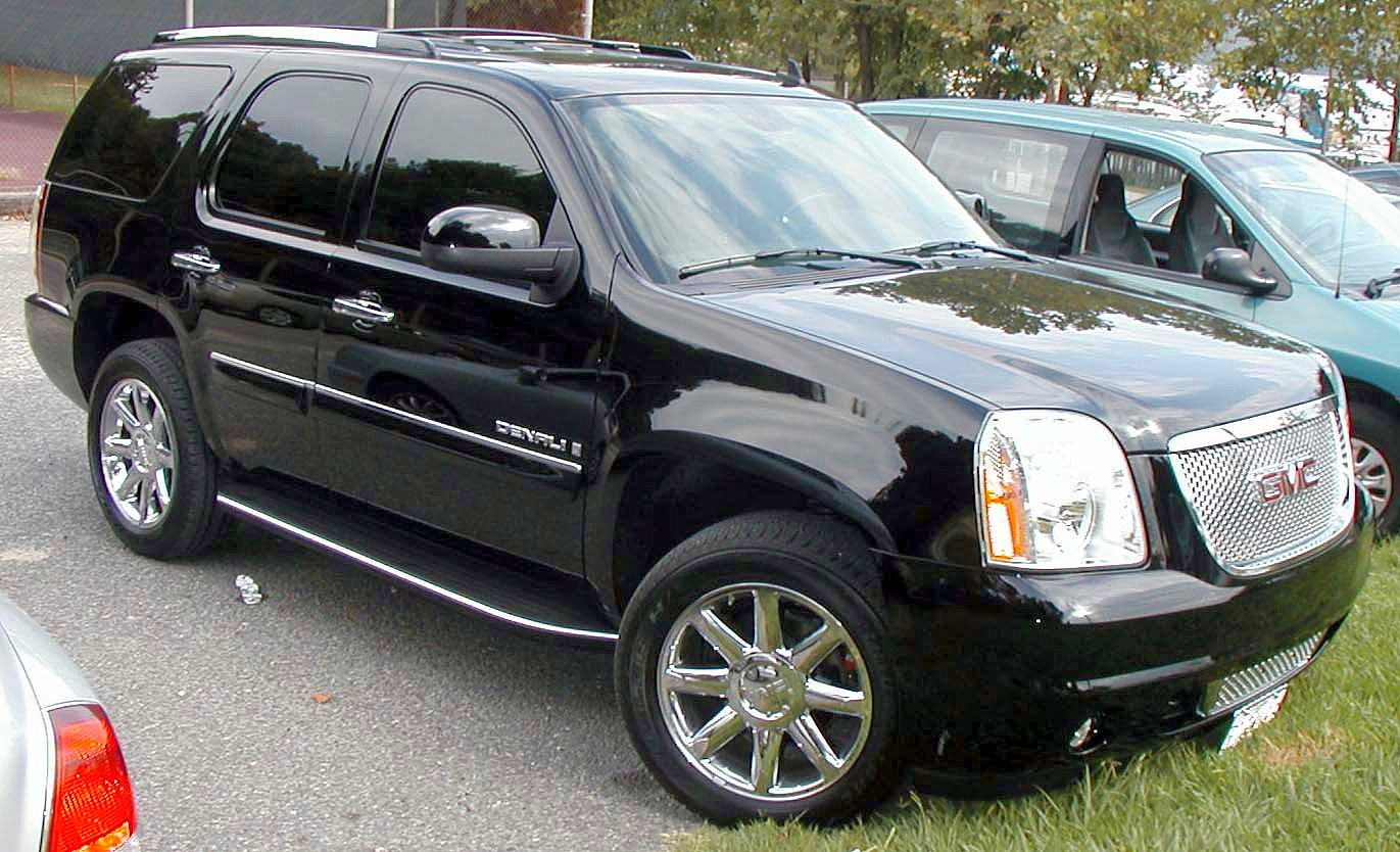 2007 GMC Yukon Denali photographed in USA